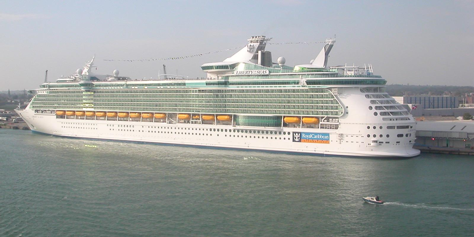 Liberty of the Seas in Southampton on 22nd April 2007.